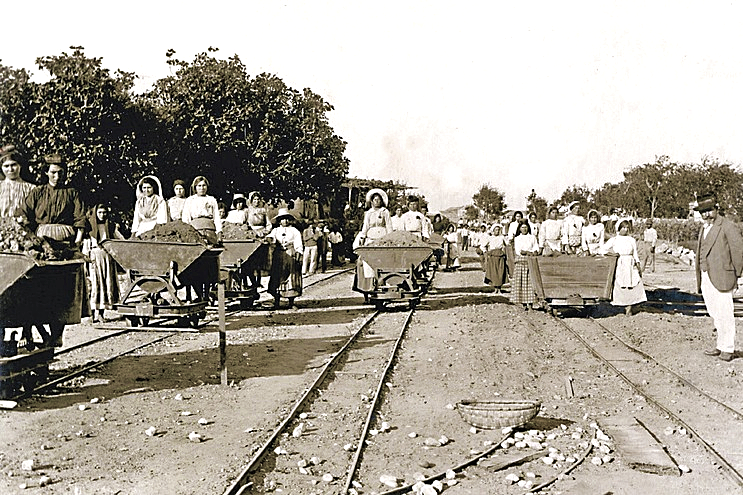 Dr. Lourenço Peixinho Ave. (Aveiro, Portugal) being constructed. Circa 1918.